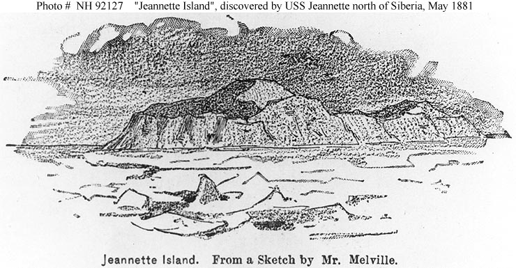 Photo #: NH 92127 Jeannette Arctic exploring expedition, 1879–1881 Engraving after a sketch by George W. Melville, depicting "Jeannette Island", discovered by USS Jeannette as she drifted icebound north of Siberia in May 1881. Position was about 159E, 76 40'N. Copied from "The Voyage of the Jeannette ...", Volume II, page 550, edited by Emma DeLong, published in 1884. U.S. Naval Historical Center Photograph. Online Image: 101KB; 740 x 385 pixels